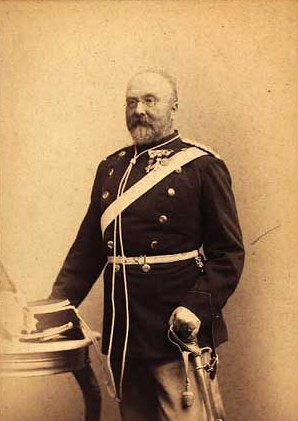 Johan Georg Frederik Colding (1833-1907), Danish colonel and politician, MP